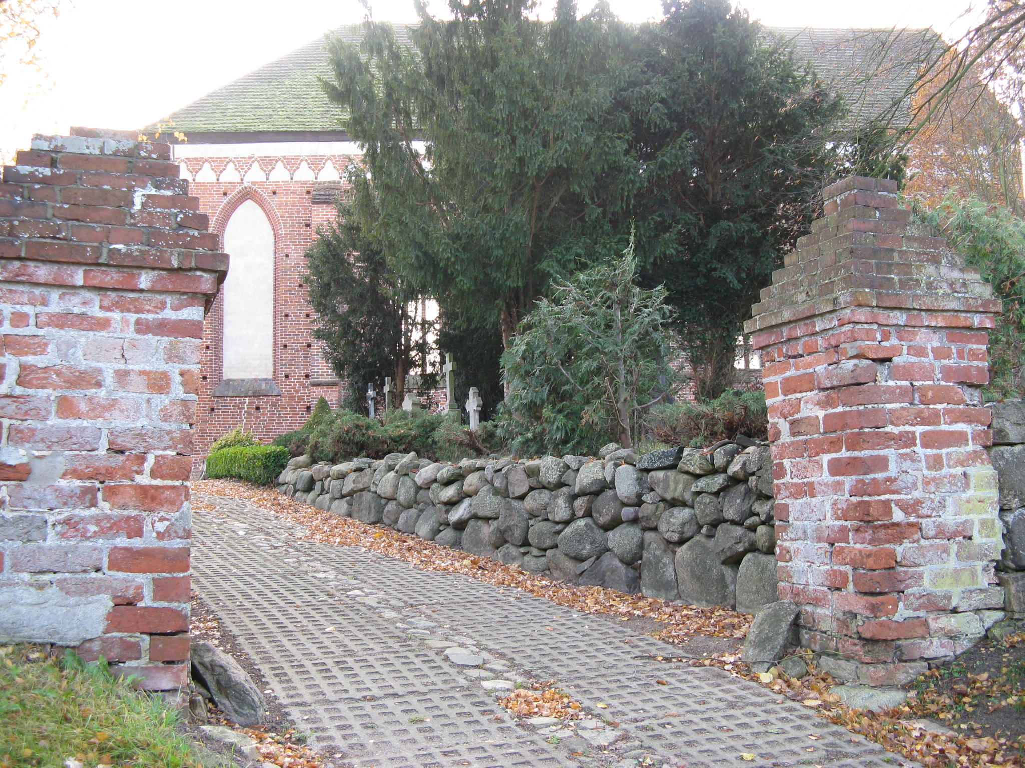 Church in Hohen Viecheln, district Nordwestmecklenburg, Mecklenburg-Vorpommern, Germany